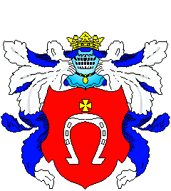 The Pobuh coat of arms to which Petro Konashevych-Sahaidachnyi, a Ukrainian cossack, belonged